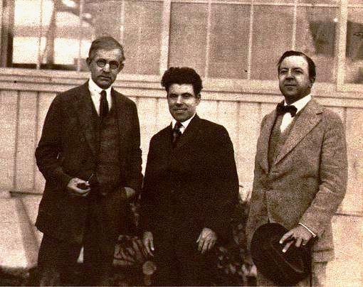 American writers Eugene Manlove Rhodes, Jim Tully, and Rupert Hughes, page 47 of the April 1922 Screenland.